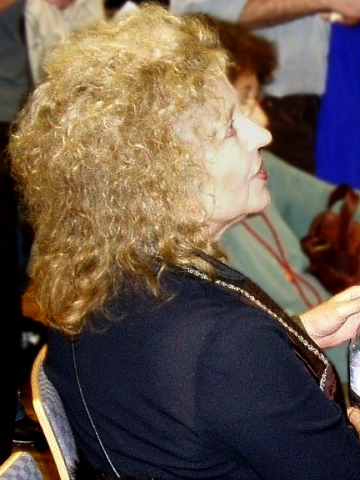 Hanna Schygulla, actress (picture detail)